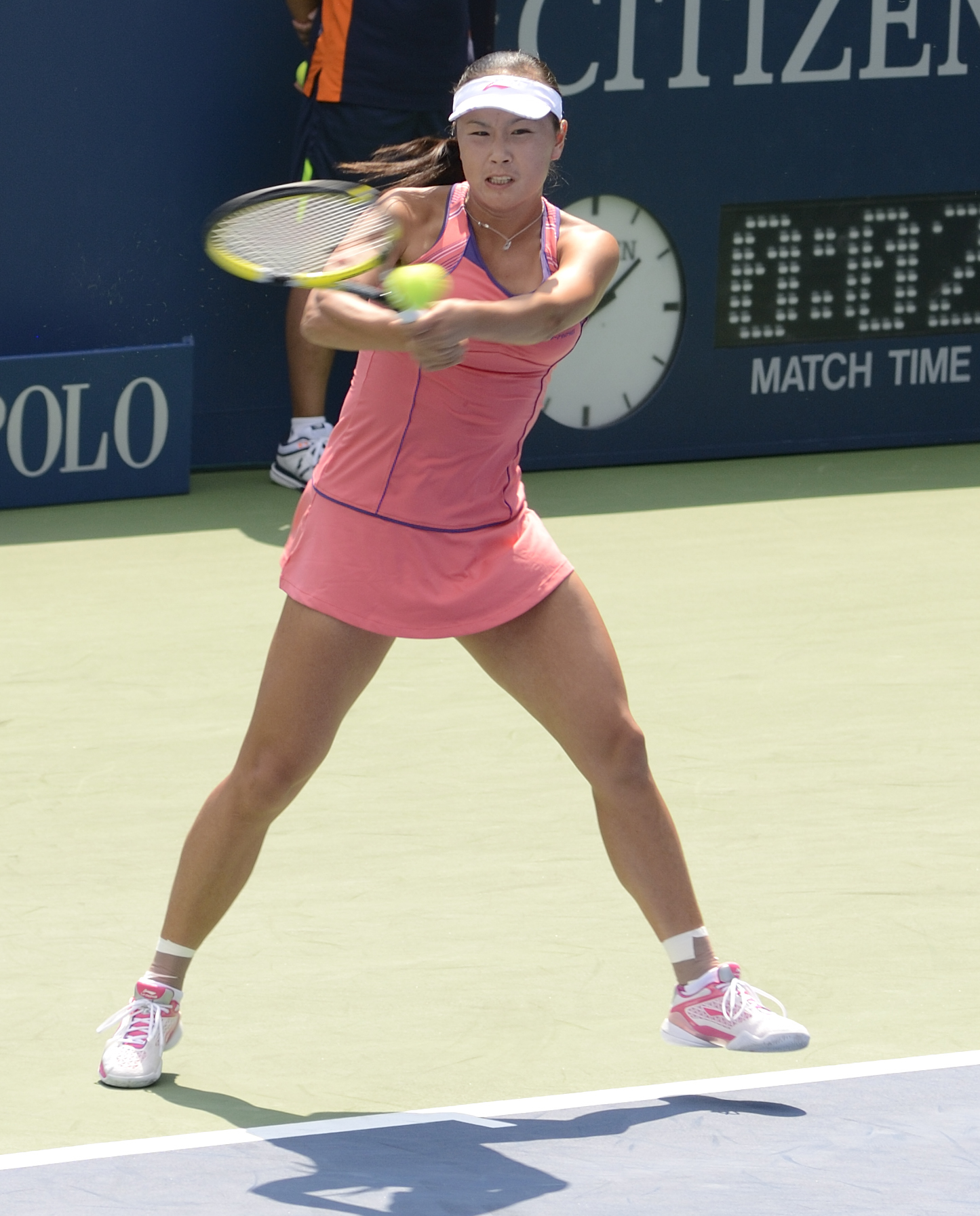 Peng Shuai at the 2011 US Open